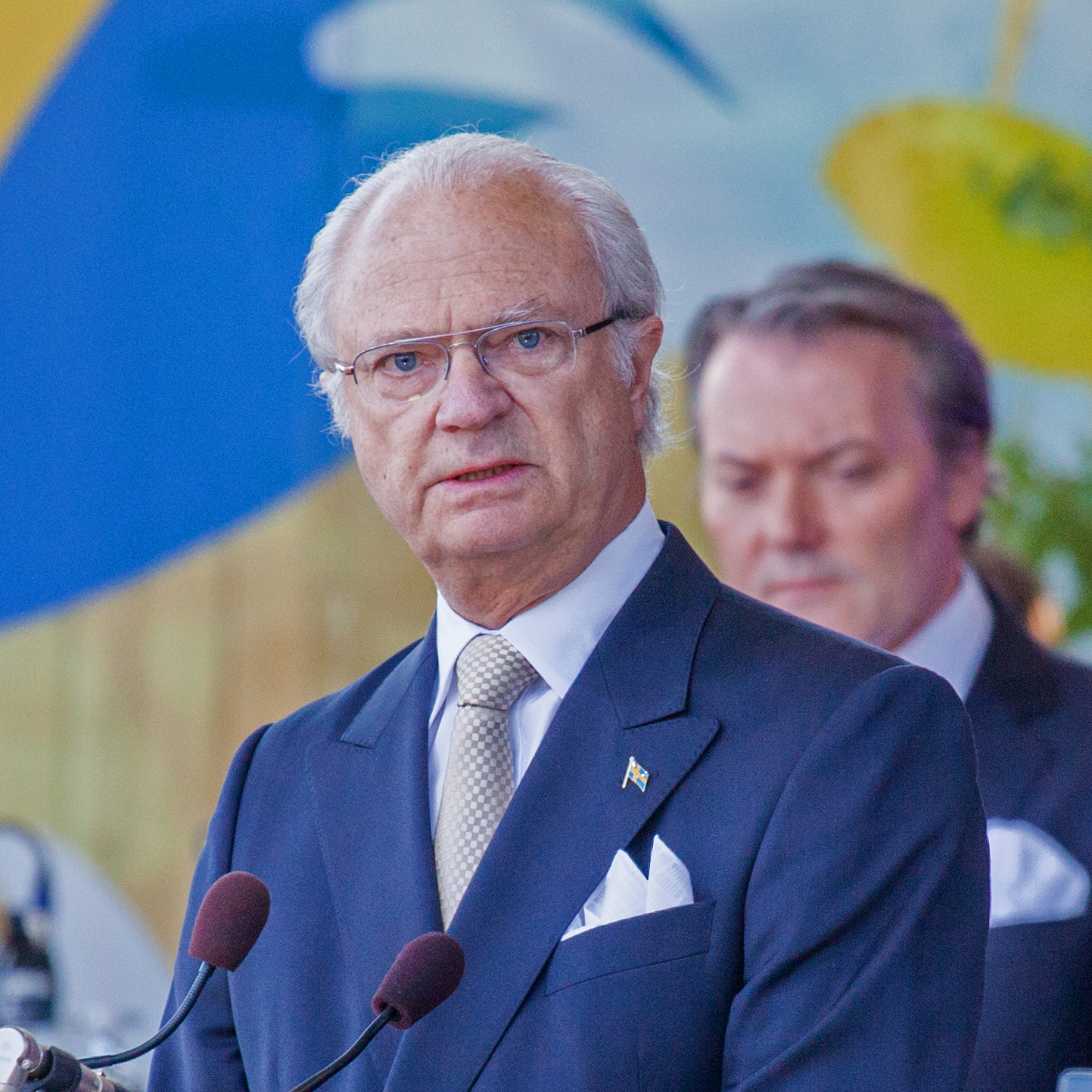 King Carl XVI Gustaf of Sweden at the Swedish National Day 6th of June 2013 at Skansen Stockholm Sweden